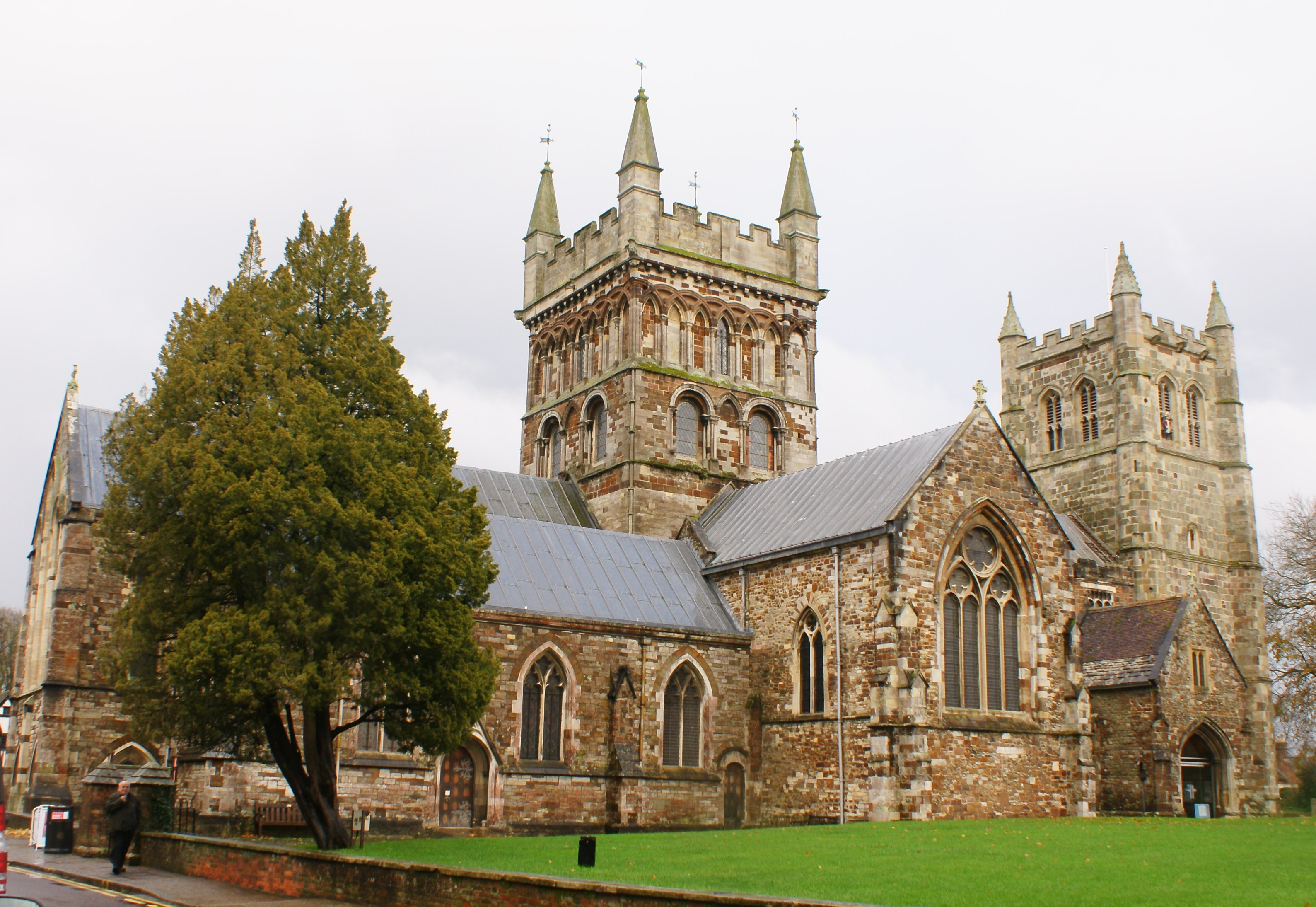 Dedicated to St Cuthburga (sister of Ine, King of Wessex): mostly Norman (12th century) with some parts Decorated Gothic (14th century).